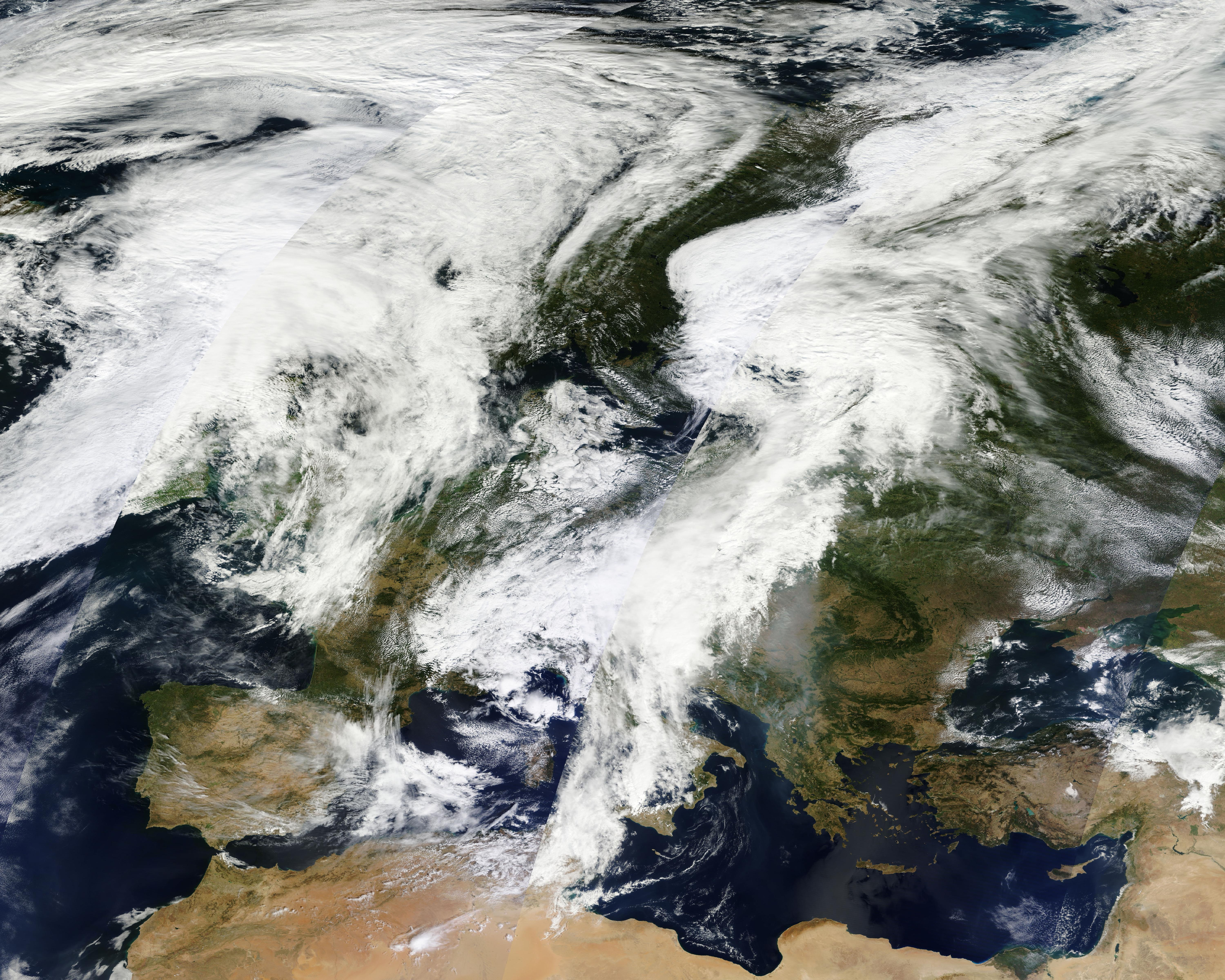 Europe covered by clouds on September 1, 2012